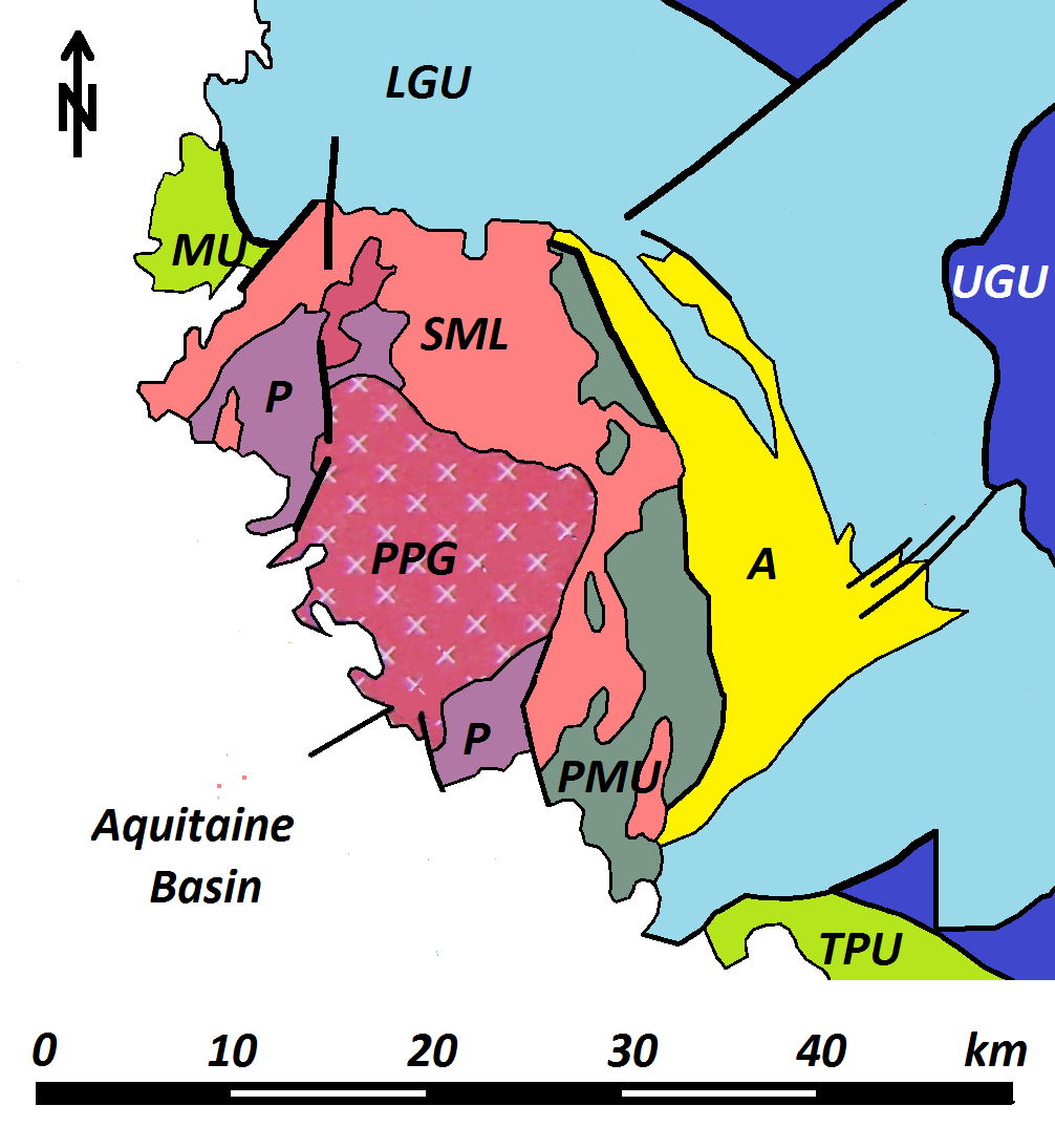 Geological map of the Saint-Mathieu dome in the northwestern French Massif Central. The following abbrevations designate the following units: PMU - Parautochthonous Micaschist UnitLGU - Lower Gneiss UnitUGU - Upper Gneiss UnitTPU -Thiviers-Payzac UnitMU - Mazerolles UnitPPG - Piégut-Pluviers granodioriteSML - Saint-Mathieu leucograniteA - augengneissesP - paragneisses